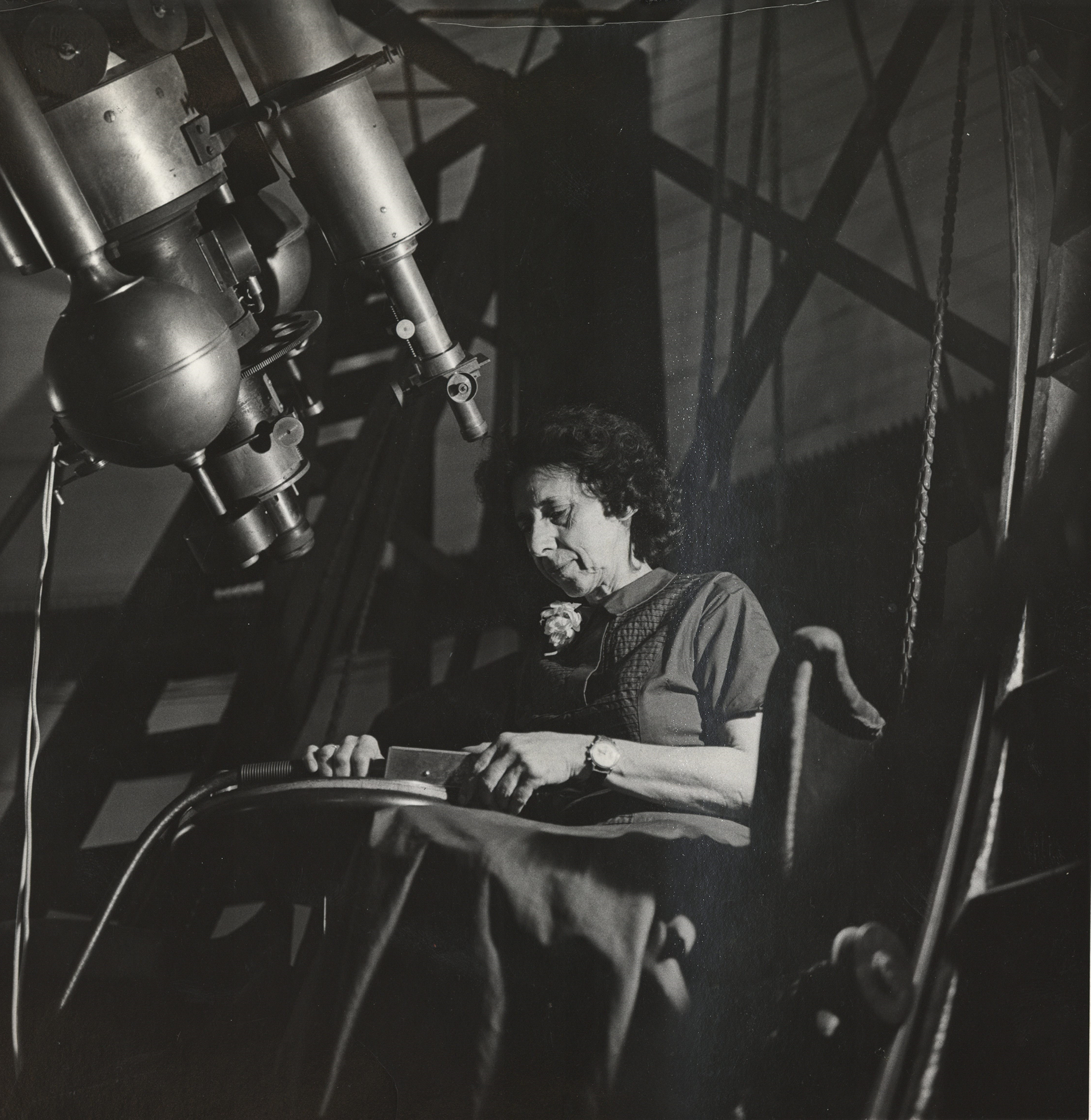 Frances Woodworth Wright, seated, at a telescope at Harvard College Observatory.